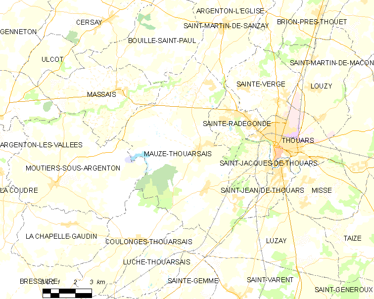 Map of French municipality Mauzé-Thouarsais